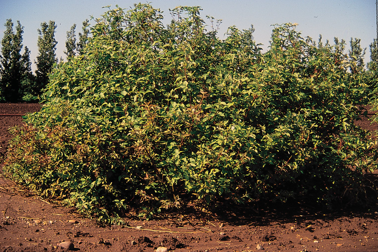 Cornus sericea (Redosier Dogwood)